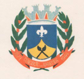 Coat of arms of the city of Conceição da Aparecida, Minas Gerais, Brazil.